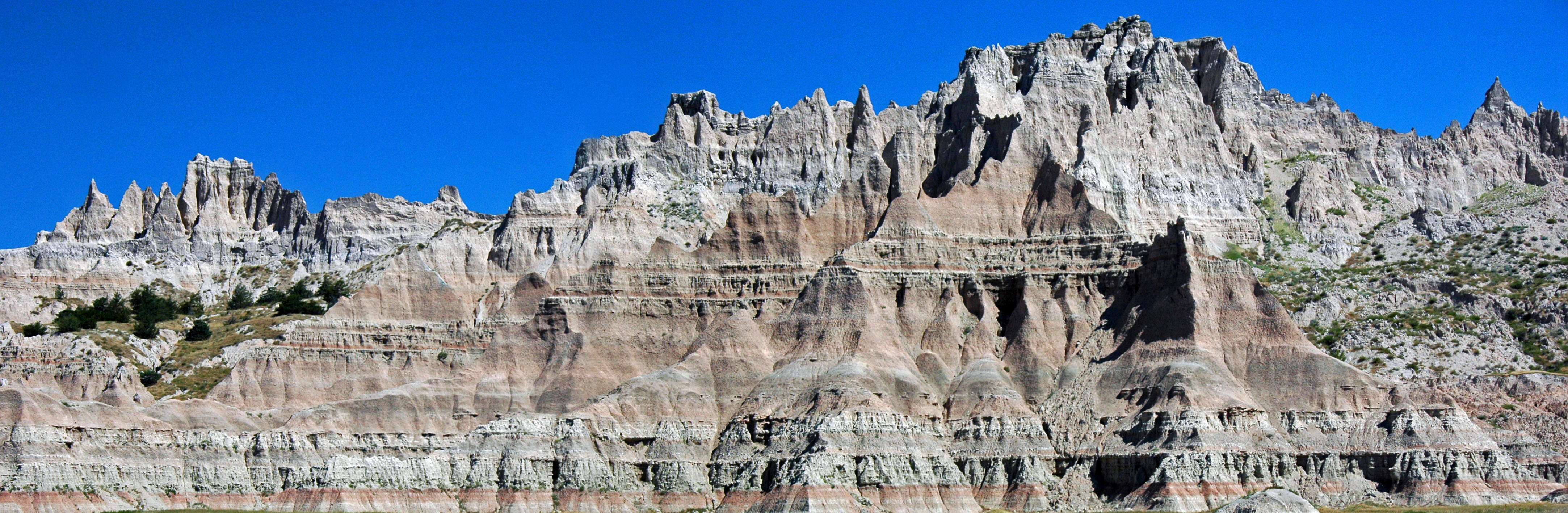 (photos by James St. John; photo stitch by Mary Ellen St. John) The White River Badlands of South Dakota consist of a scenic landscape of differentially weathered and eroded, nonmarine sedimentary rocks of Tertiary age. The most scenic areas have been set aside as an American national park (Badlands). The simplified stratigraphic succession in Badlands National Park is: Sharps Formation (Oligocene) Brule Formation (Oligocene) Chadron Formation (Eocene) Chamberlain Pass Formation (Eocene) Fox Hills Formation (Cretaceous-Paleocene?) Pierre Shale (Cretaceous) The Brule and Chadron Formations make up the White River Group, which along with the overlying Sharps Formation, provide the principal scenery in the White River Badlands. Light-colored volcanic ash beds are present in the succession, as are numerous reddish-colored paleosol ("fossil soil") horizons. The Pierre Shale at the base of the exposed succession is a marine unit. The White River Group weathers and erodes relatively quickly into a rugged landscape with steep slopes, little to no soil, and little to no vegetation. These are the characteristics of badlands topography - "bad" referring to its unsuitability for farming. Nonmarine fossils are relatively common in the White River Group - principally fossil mammals and other vertebrates. Fossils in the Chadron Formation indicate a swampy, near-sea level environment. The overling Brule Formation produces fossils consistent with a grassy prairie environment. The transition from low-elevation swamp to higher-elevation prairie in this area coincides with the uplift of the Rocky Mountains during the late stages of the Laramide Orogeny. Erosion rates in the White River Badlands indicate that the landscape started to appear about half-a-million years ago and that it will disappear about half-a-million years into the future. The landscape has about a one million year lifespan. Online pub. covering the geology of Badlands National Park